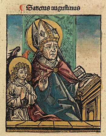 Illustration from the Nuremberg Chronicle